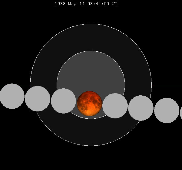 Lunar eclipse chart of moon's path through the earth's shadow. thumb